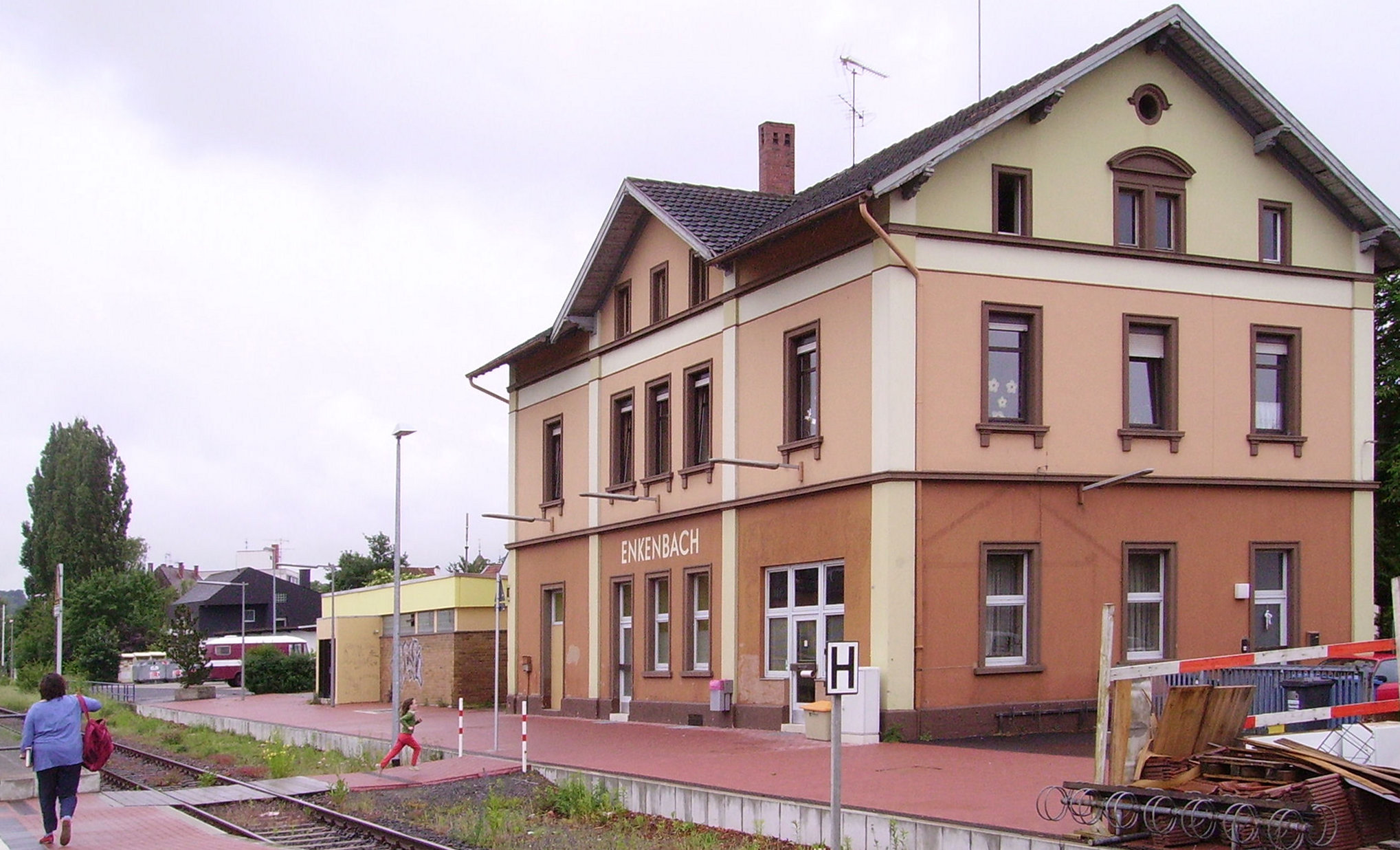 view of Enkenbach train station, Germany